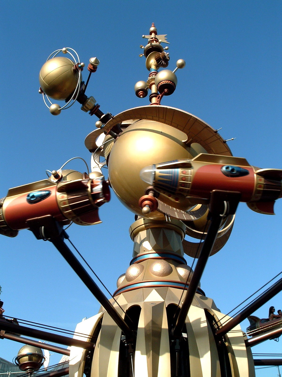 Astro Orbiter at Disneyland